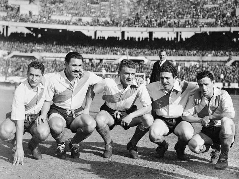 La Maquina 1947. From left: Hugo Reyes, José Manuel Moreno, Alfredo Di Stéfano, Ángel Labruna and Félix Loustau.